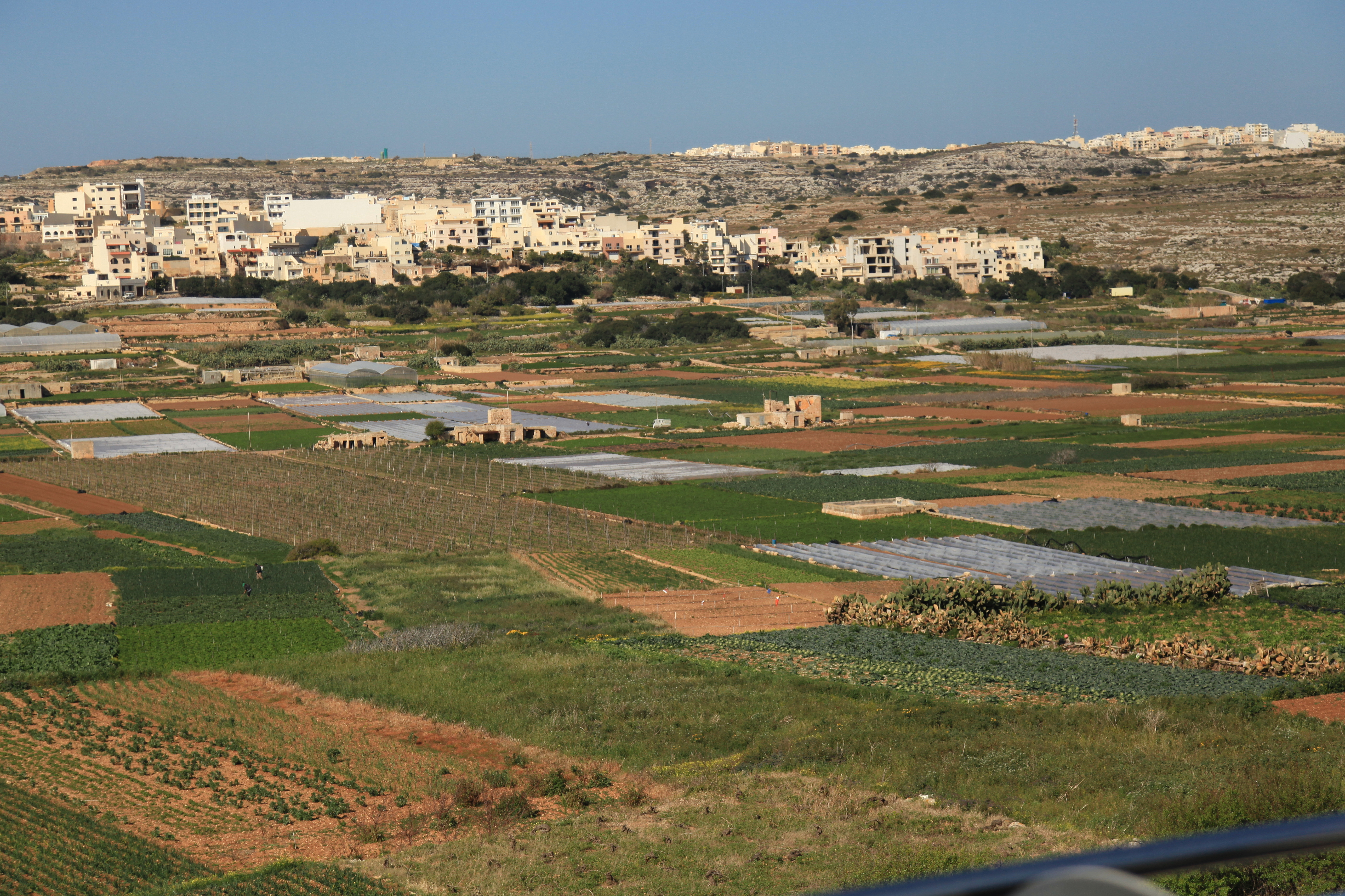 View from a Malta sightseeing north tour bus (at Triq Għajn Tuffieħa) to Il-Manikata in Mellieħa, Malta.